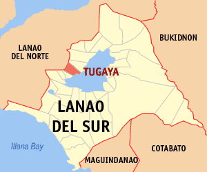 Map of the Lanao del Sur showing the location of Tugaya